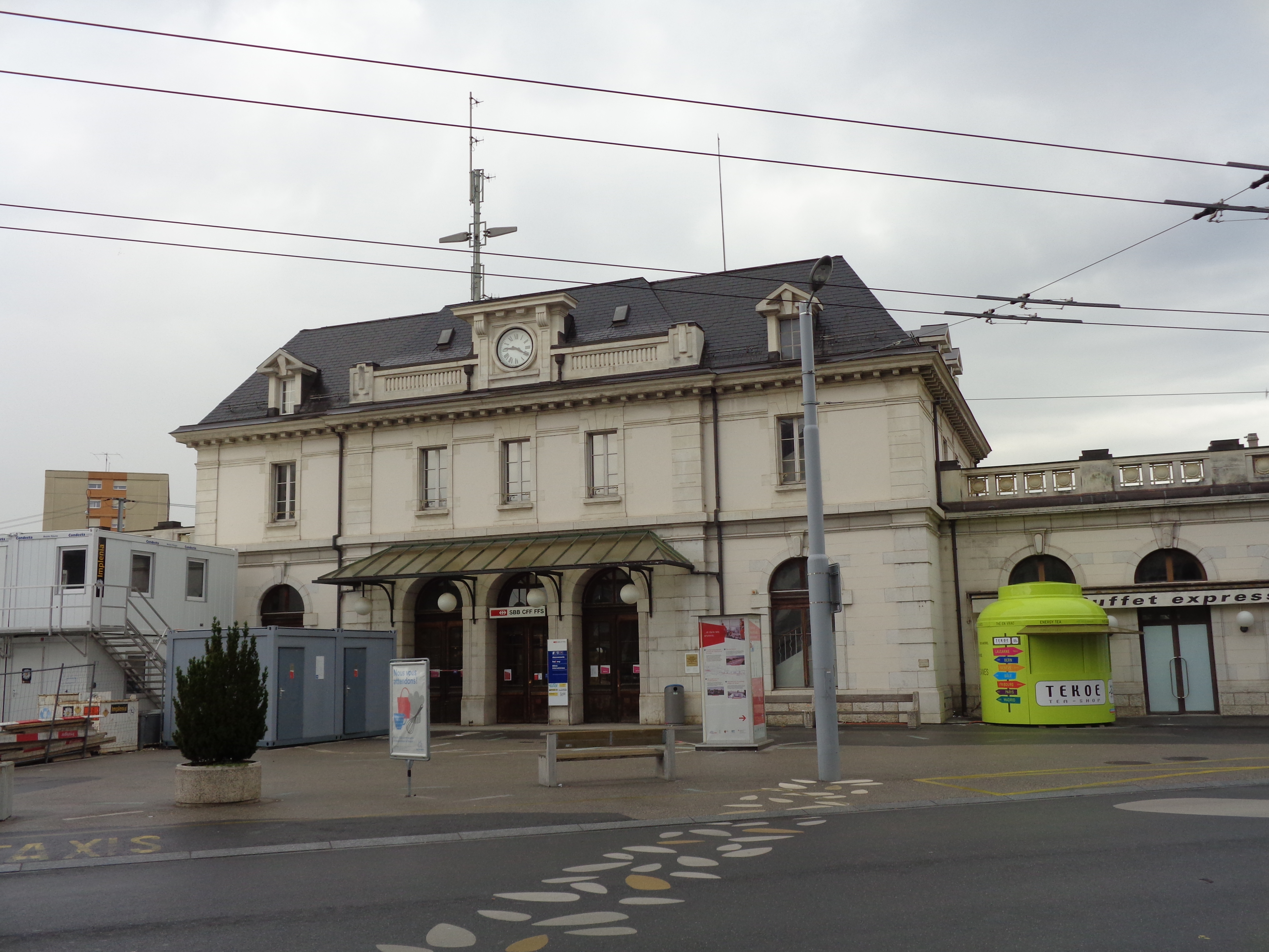 Station SBB of Renens